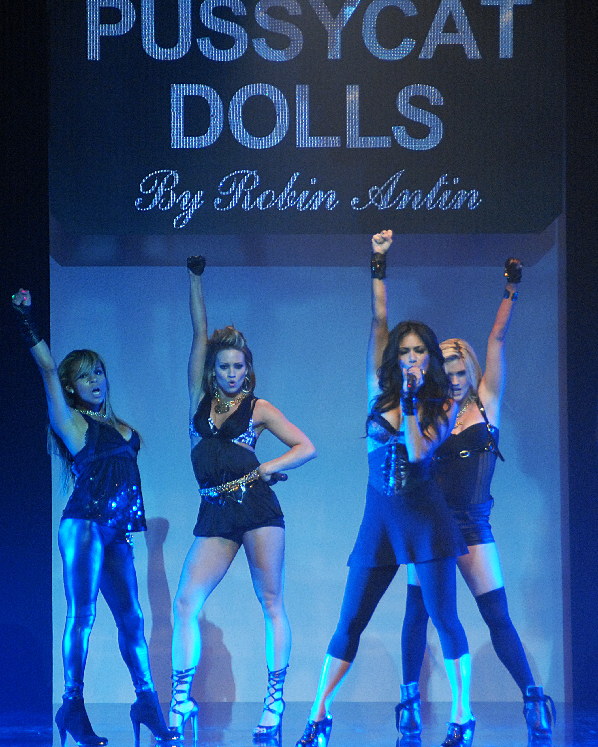 Pussycat Dolls performing during Los Angeles Fashon Week 03/13/2008